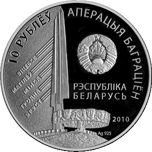 Belarus and the global community. Commemorative Coins "3-i Belaruski front. Charnyahoўski I.D." (3rd Belorussian Front. Chernyakhovsky ID ")